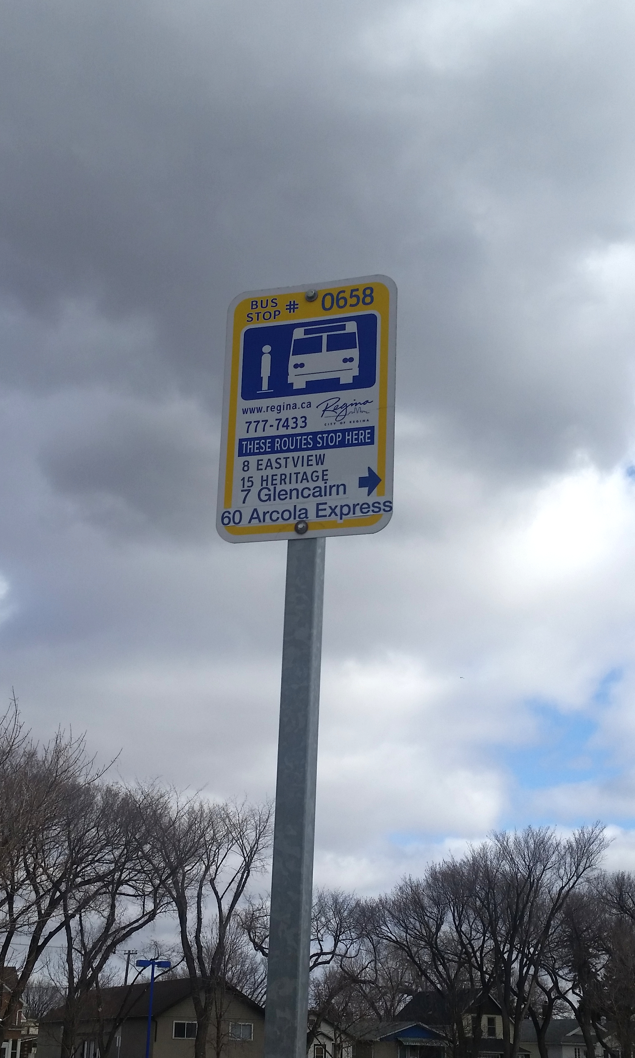 Sign for Regina Transit bus stop #658 (11th Avenue @ Montreal Street) in March 2019